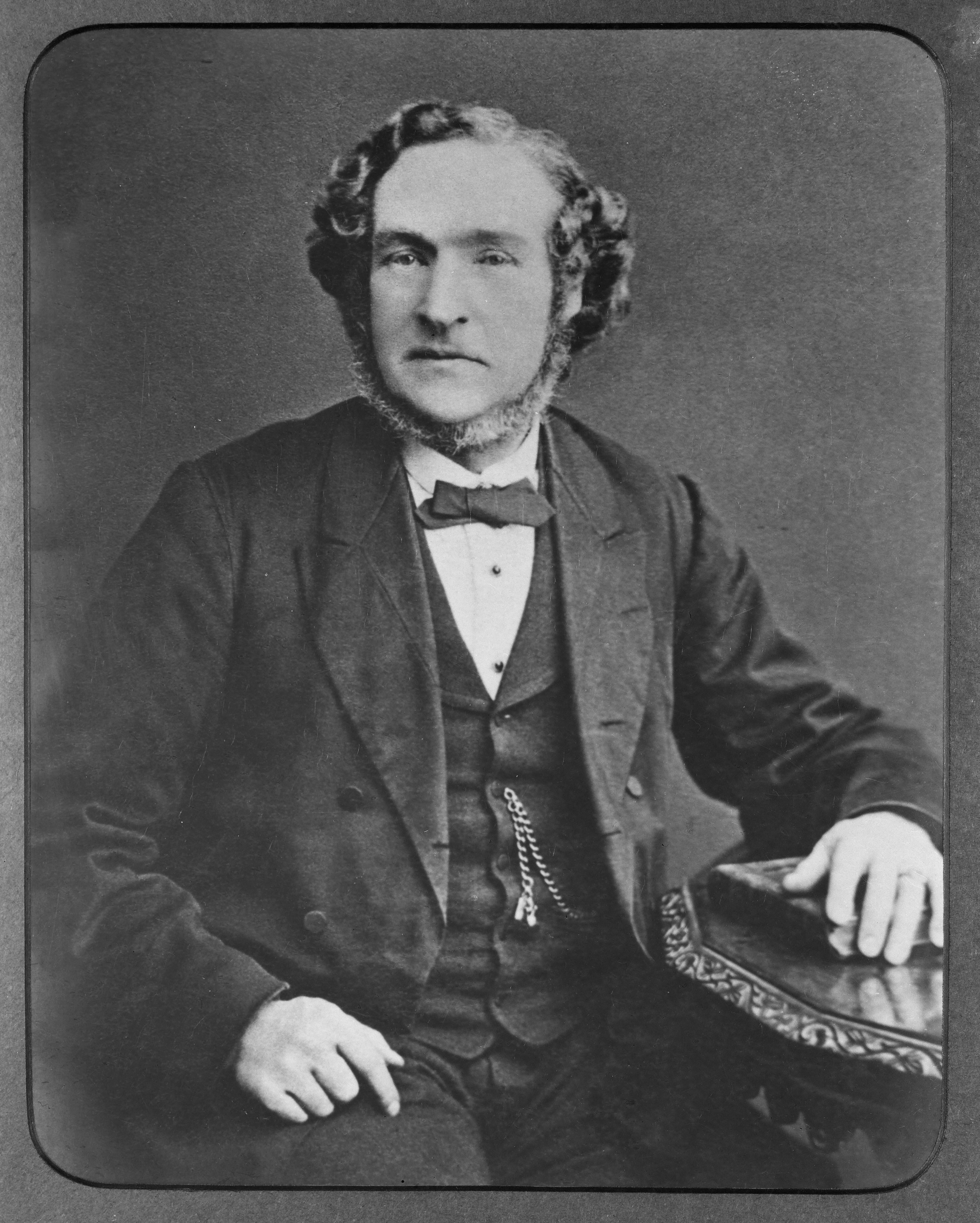 Charles Rooking Carter circa 1872. Photographer unidentified.